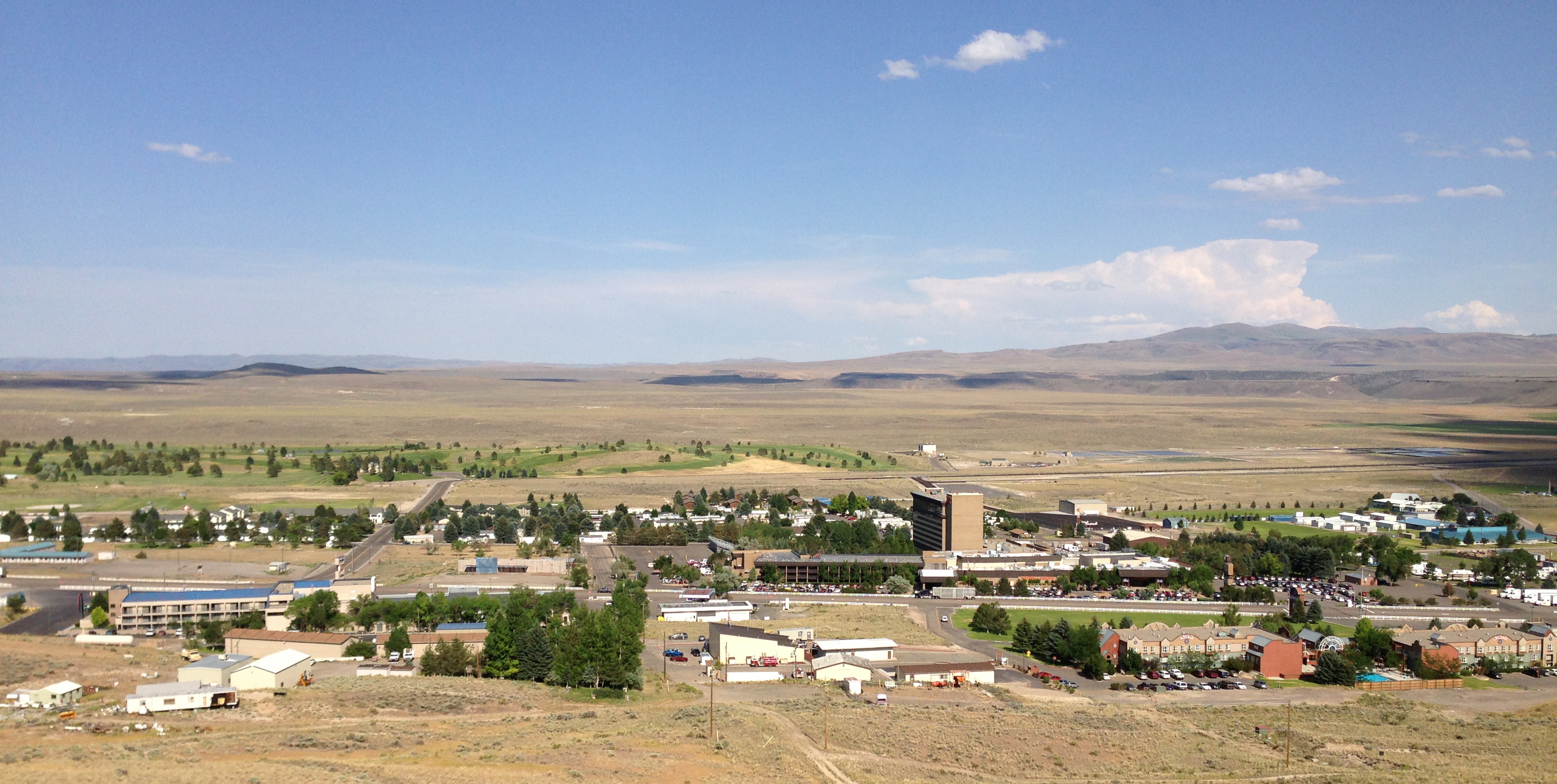 View of Jackpot, Nevada from a hill to the west